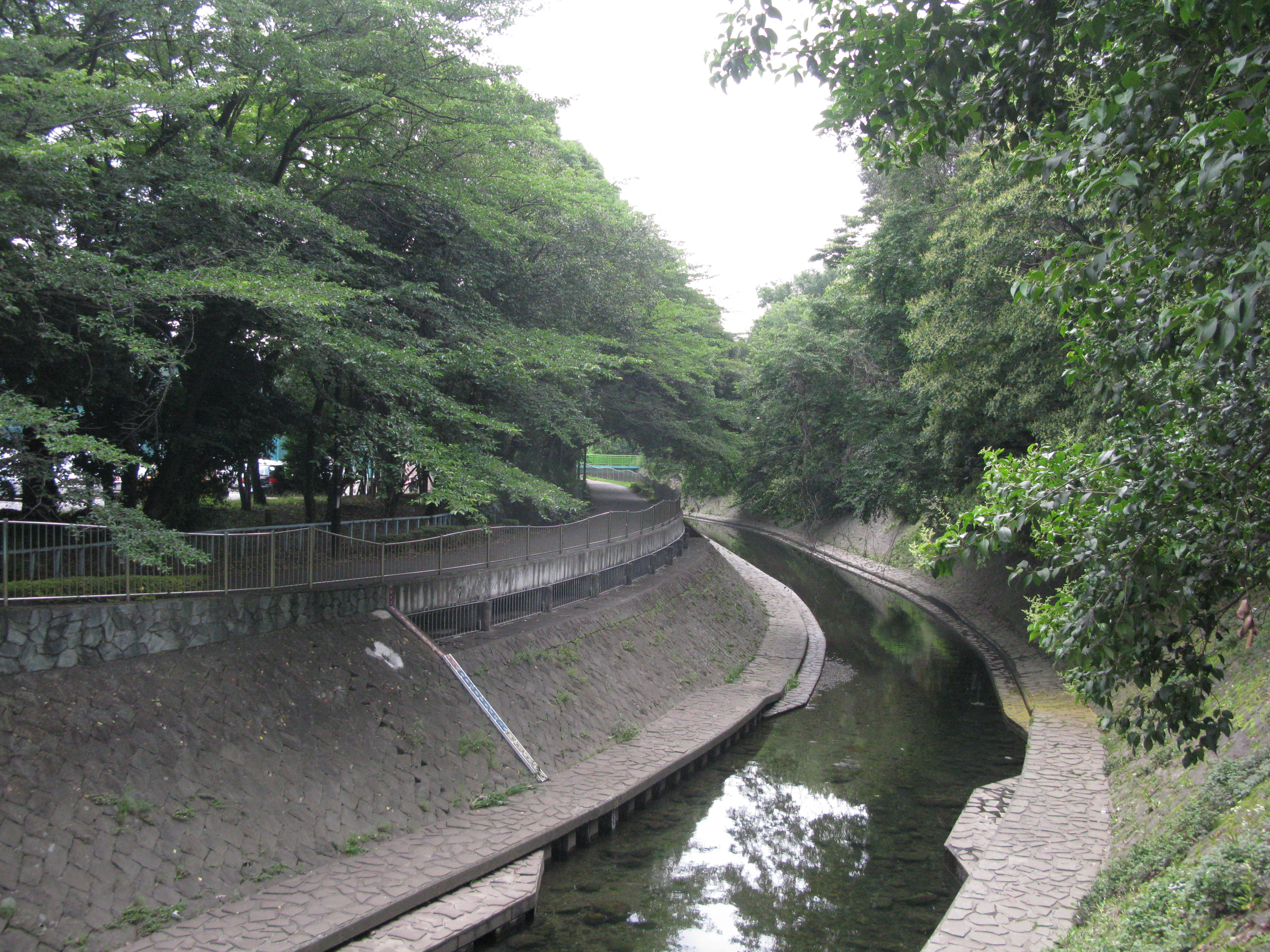 Zenpukuji river, from miyashita bridge